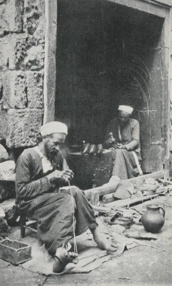 Two men sitting in an alley and making shoes.